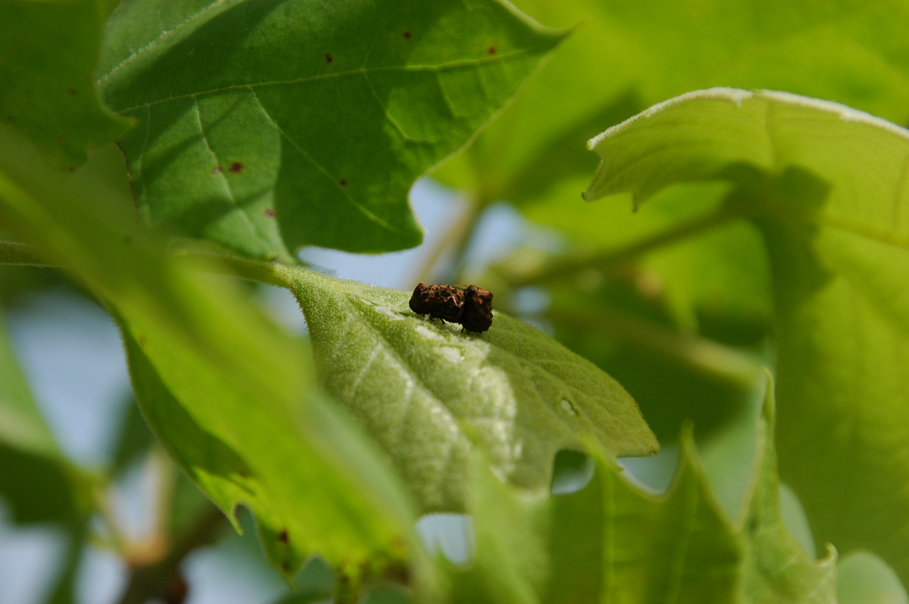 Adults of Neochlamisus platani mating on the host plant Platanus occidentalis